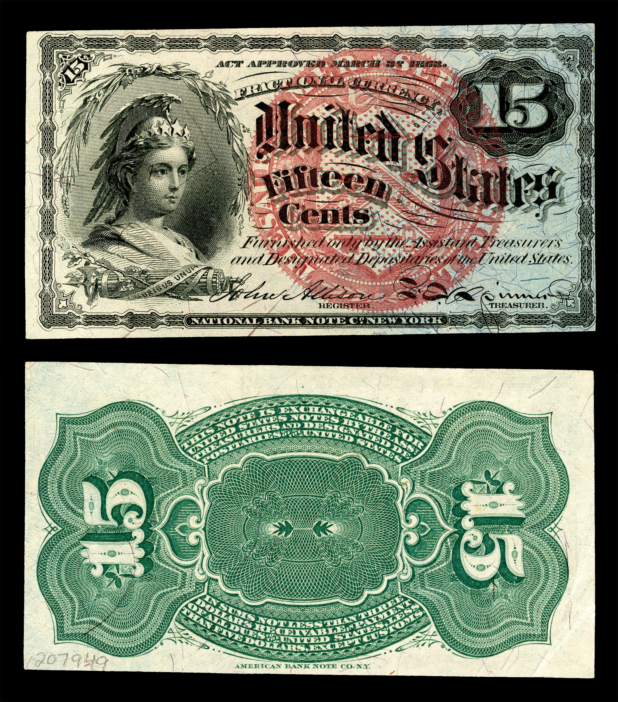 The Bust of Columbia depicted on a 15-cent bank note. Fractional Currency was introduced by the United States Federal Government following the Civil War. These notes were in use between 21 August 1862 and 15 February 1876, and could be redeemed by the U.S. Postal Service for the face value in postage stamps. Fractional notes were issued in 3, 5, 10, 15, 25, and 50 cent denominations.